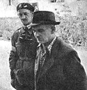 Warsaw Uprising: Commander of "Baszta" Stanisław Kamiński "Daniel" (front) and Lech Głuchowski "Jeżycki" commander of "Jeleń" division.